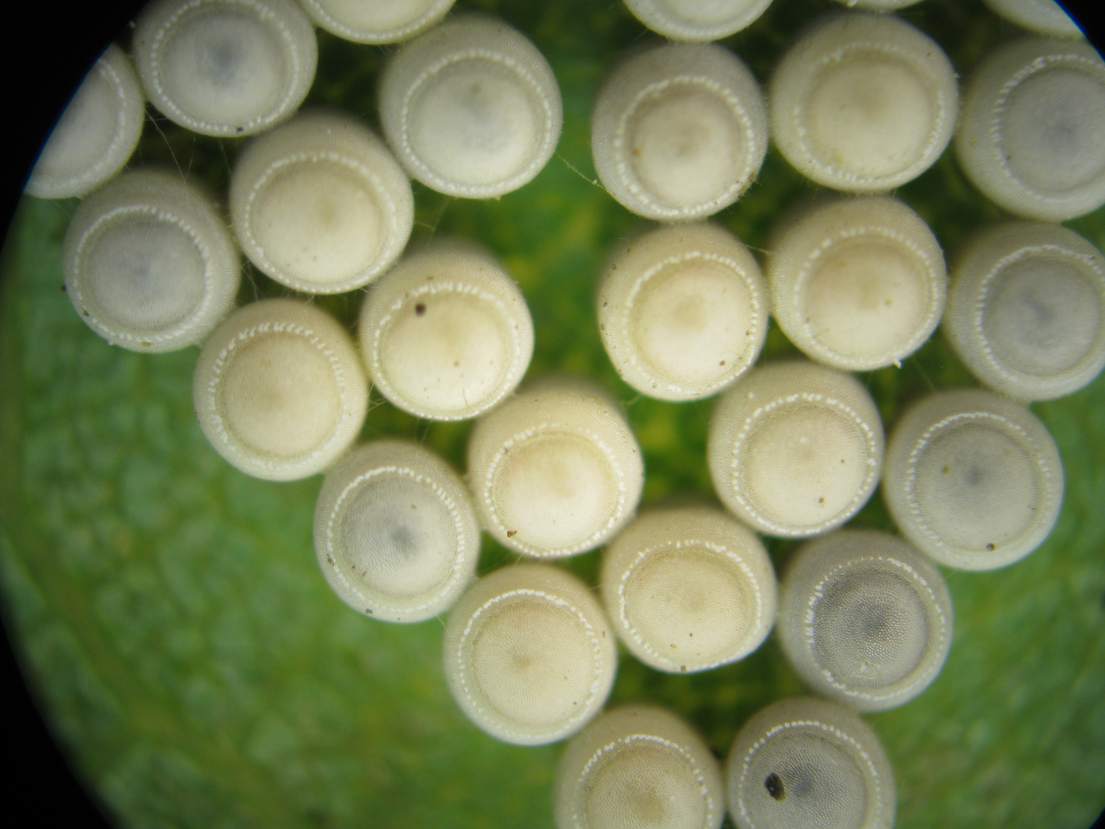 Chinavia hilaris eggs. About 1 mm. Churchville Nature Center, Bucks County, Pennsylvania, USA August 25, 2012.